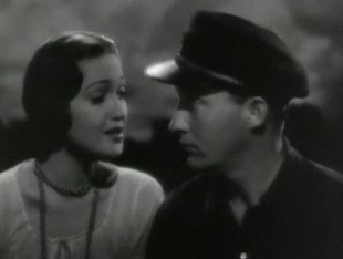 Cropped screenshot of Dorothy Lamour and Bing Crosby from the trailer for the film Road to Singapore.